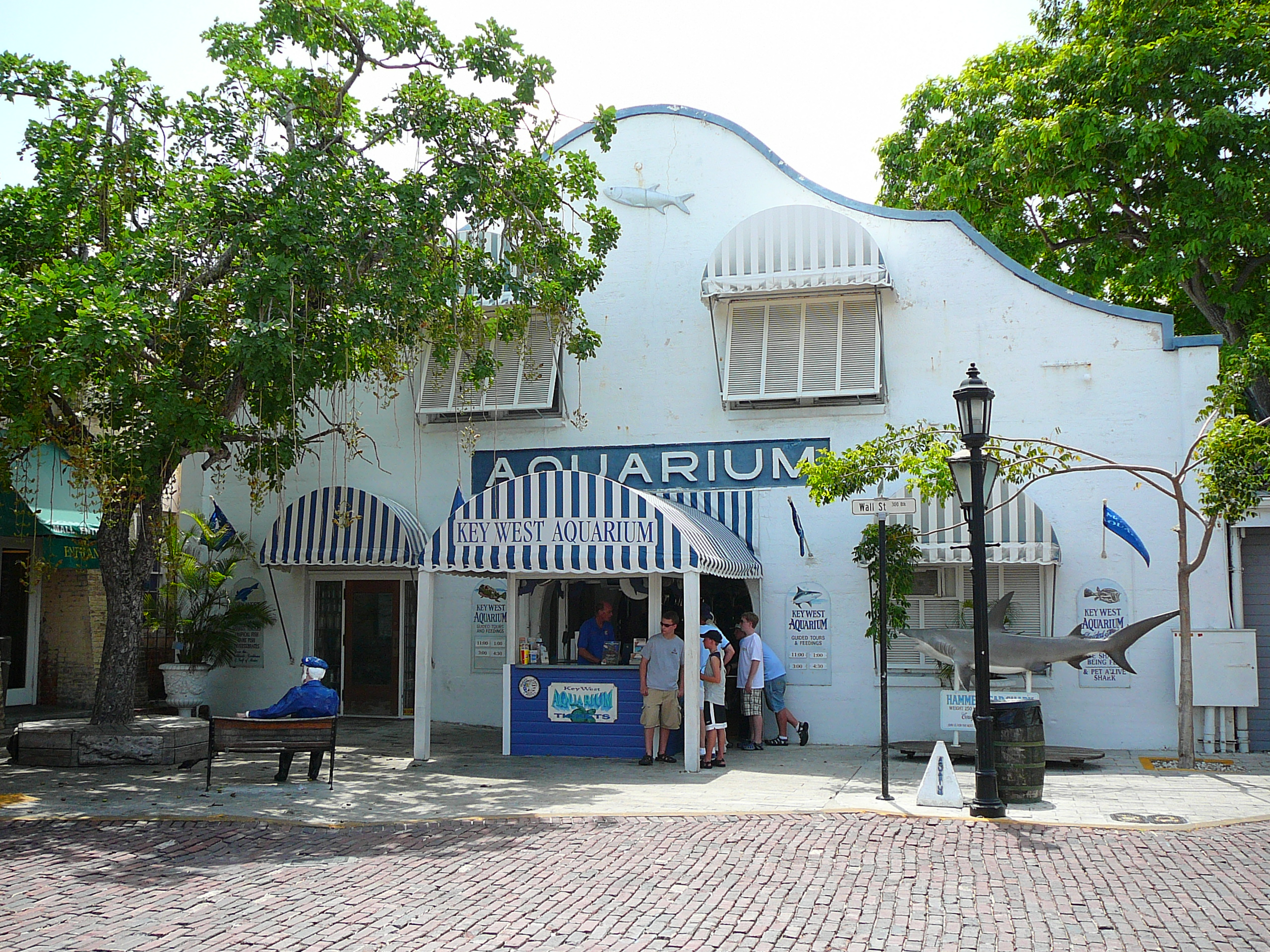 Digital photo taken by Marc Averette. The Key West Aquarium in downtown Key West, Florida